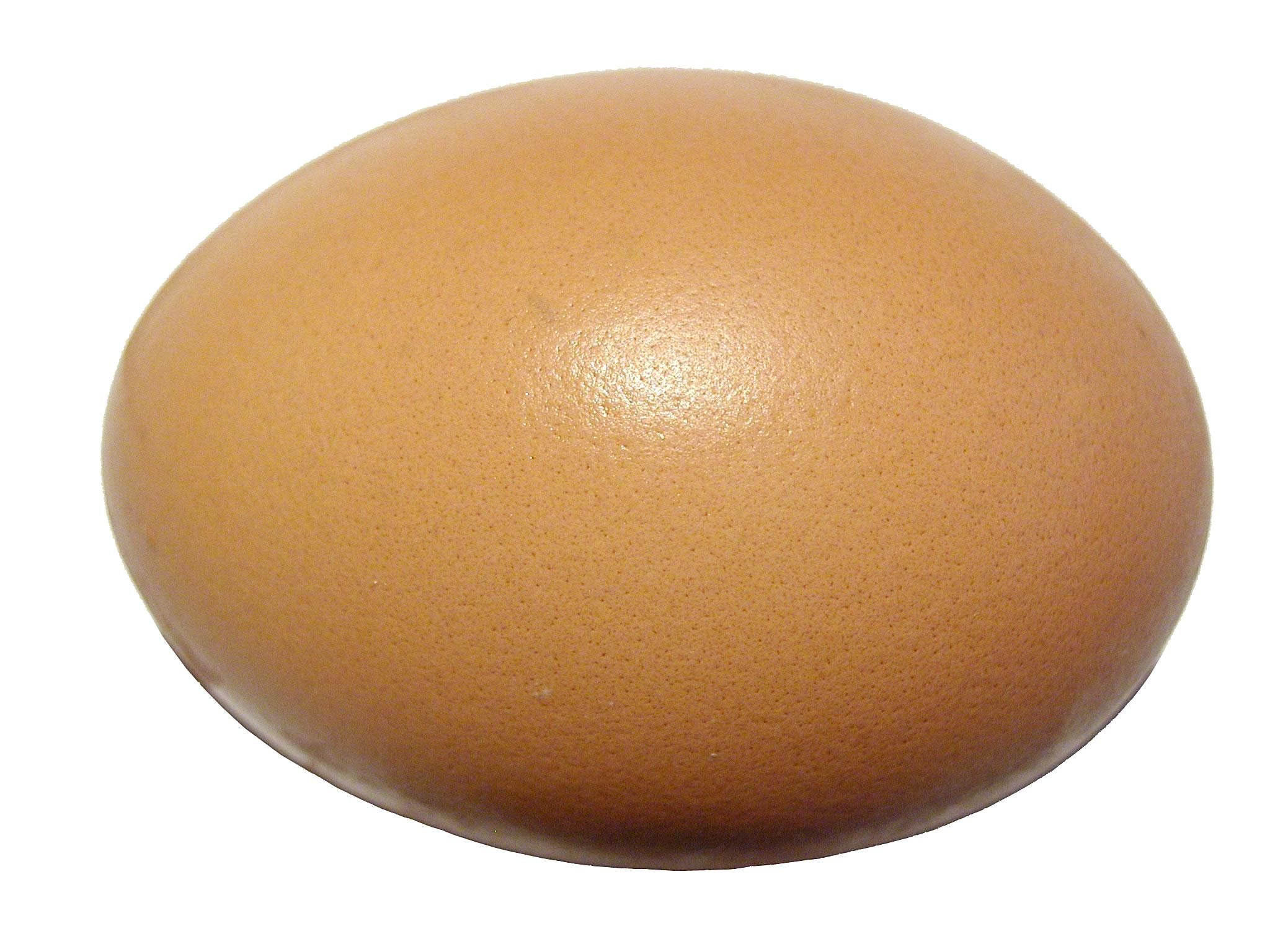 Image title: Egg on white background Image from Public domain images website